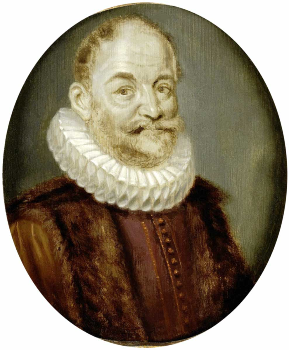 Johann Polyander a Kerckhoven (1568-1646) Dutch Reformed theologian